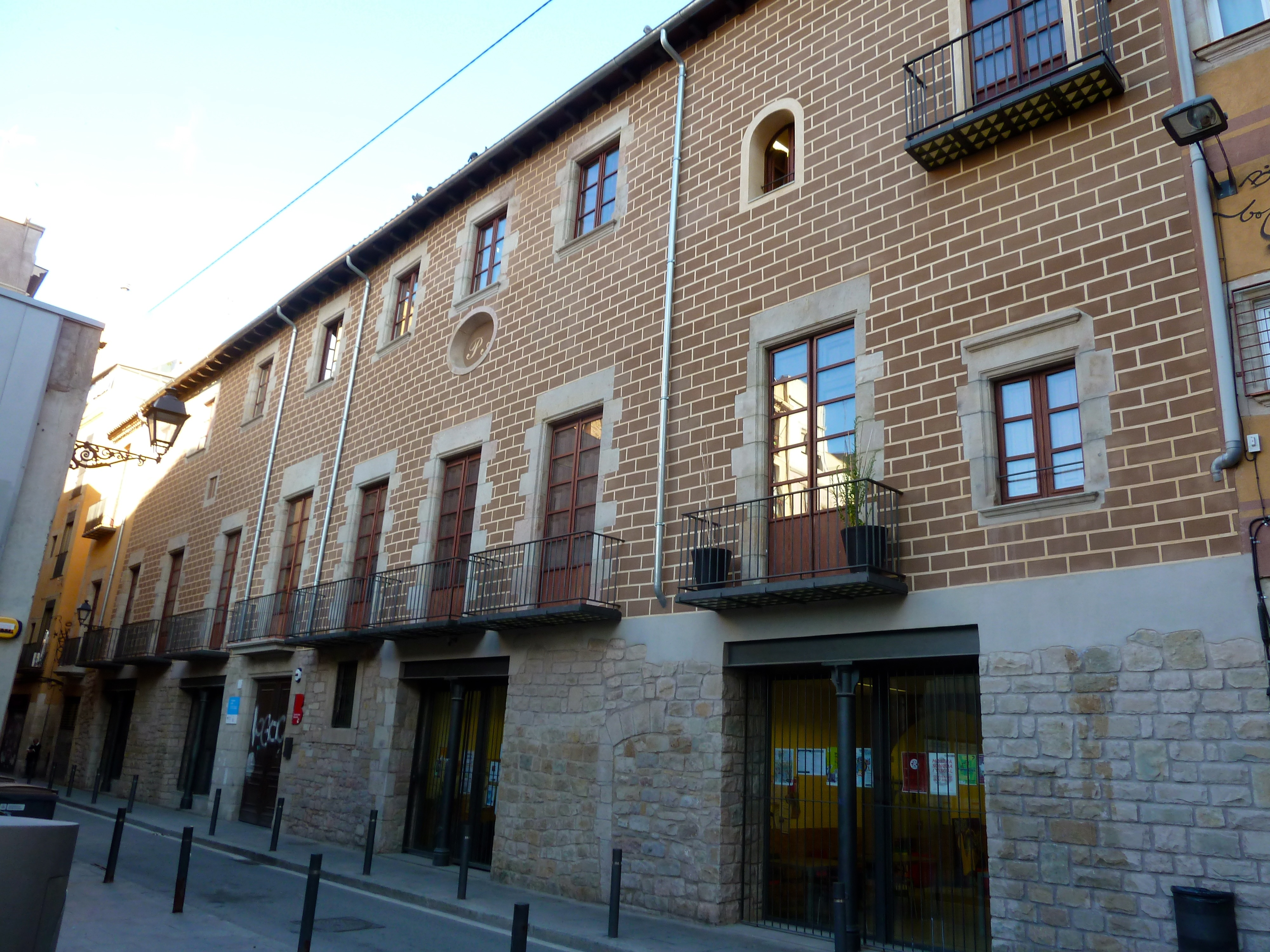 Palau Alòs at St. Pere Més Baix, Barcelona. Foto 12 June 2012, Andreu Martínez